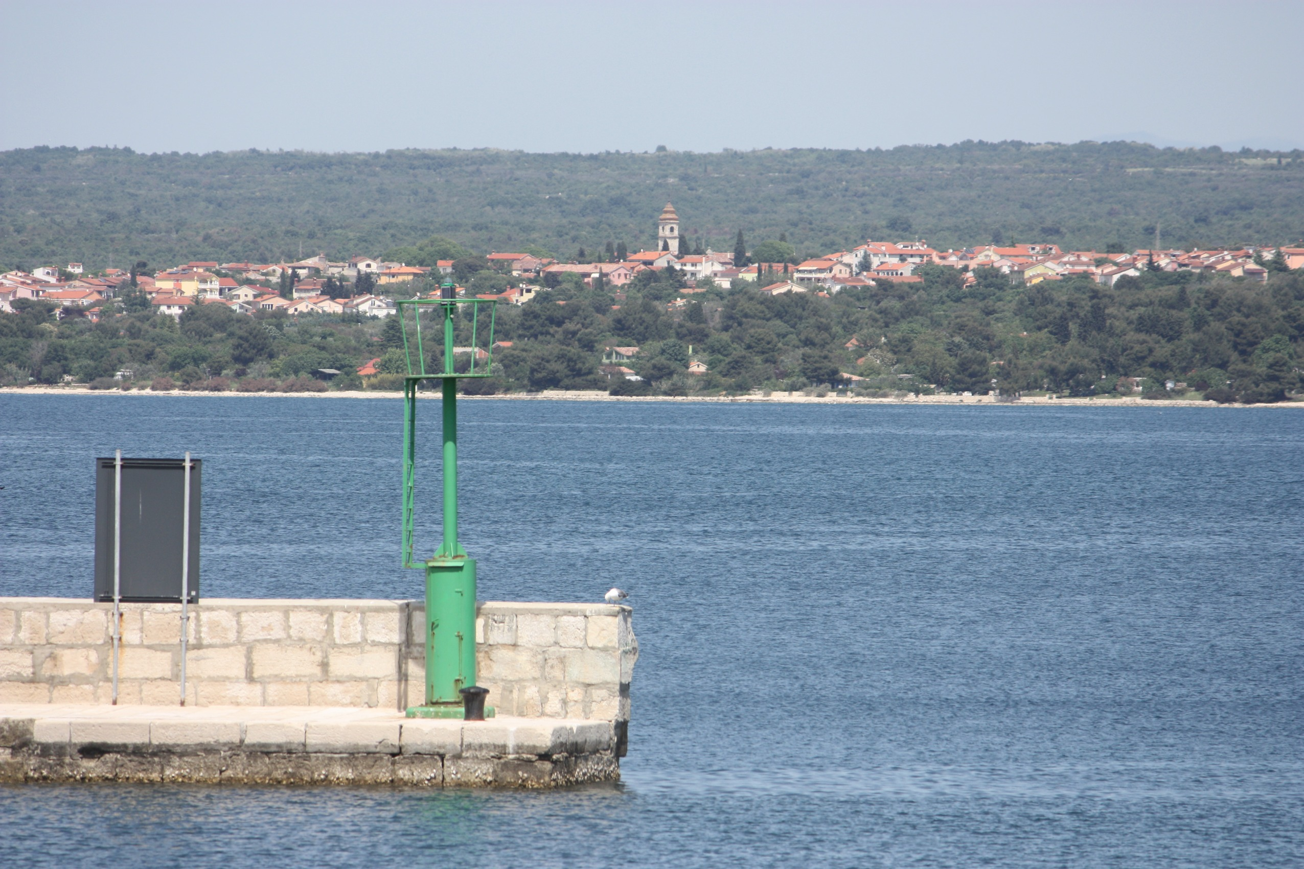 Brijuni, view to Peroj